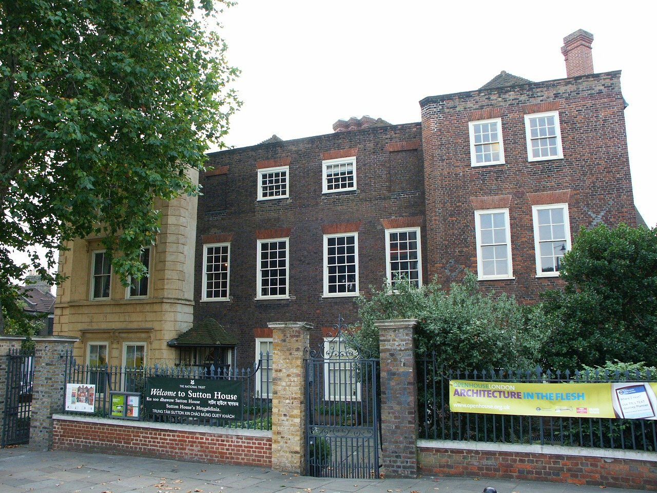 Sutton House, 2-4 Homerton High Street, Hackney, London, E9 6JQ. A Grade II* listed Tudor manor house which is now owned by the National Trust. Originally known as 'Bryck Place', Sutton House was built in 1535 by Sir Ralph Sadleir, Principal Secretary of State to Henry VIII, and is the oldest residential building in Hackney. It is a rare example of a red-brick building from the Tudor period.